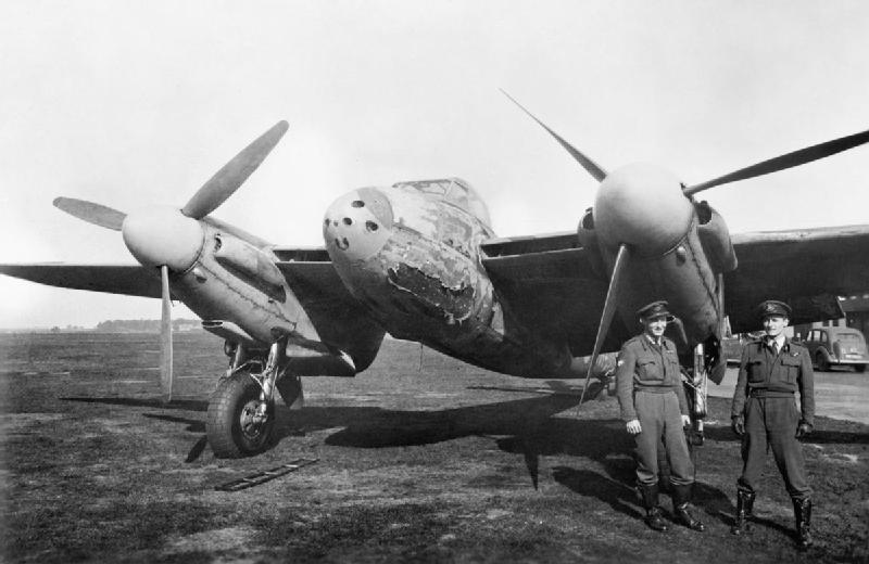 Flight Lieutenant M Cybulski (left) and Flying Officer H Ladbrook of No. 410 Squadron RCAF, with their damaged Mosquito Mk II at Coleby Grange, 27 September 1943. Their aircraft was severely charred by an exploding Dornier Do 217. Flight Lieutenant M Cybulski (left) and Flying Officer H Ladbrook of No 410 Squadron, RCAF, with their severely charred Mosquito II at Coleby Grange, 27 September 1943. On an intruder sortie over the Netherlands the previous night the pair had attacked a Do217, closing to within 100ft before opening fire. The enemy aircraft exploded with such force that the Mosquito was enveloped by burning fuel and badly scored. Debris also damaged the port engine, which had to be shut down (note the feathered propeller).